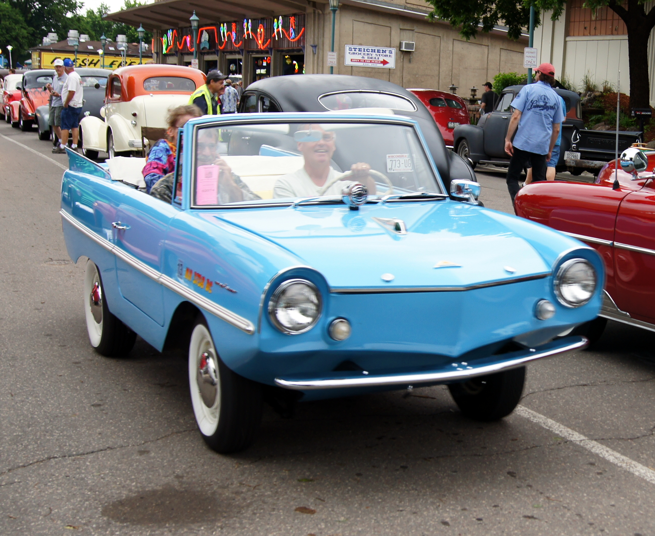 MSRA “BACK TO THE 50′s” 40th ANNIVERSARY June 21-23, 2013 State Fairgrounds St. Paul Minnesota More Car Pictures